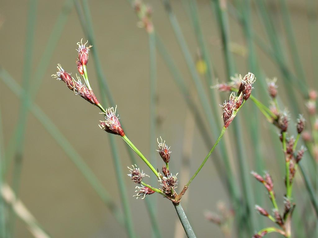 Scirpus tabernaemontani(Cyperaceae) Japanese name:Hutoi Date;2008,05,06;Tanabe city, Wakayama prefecture, Japan Author;Keisotyo